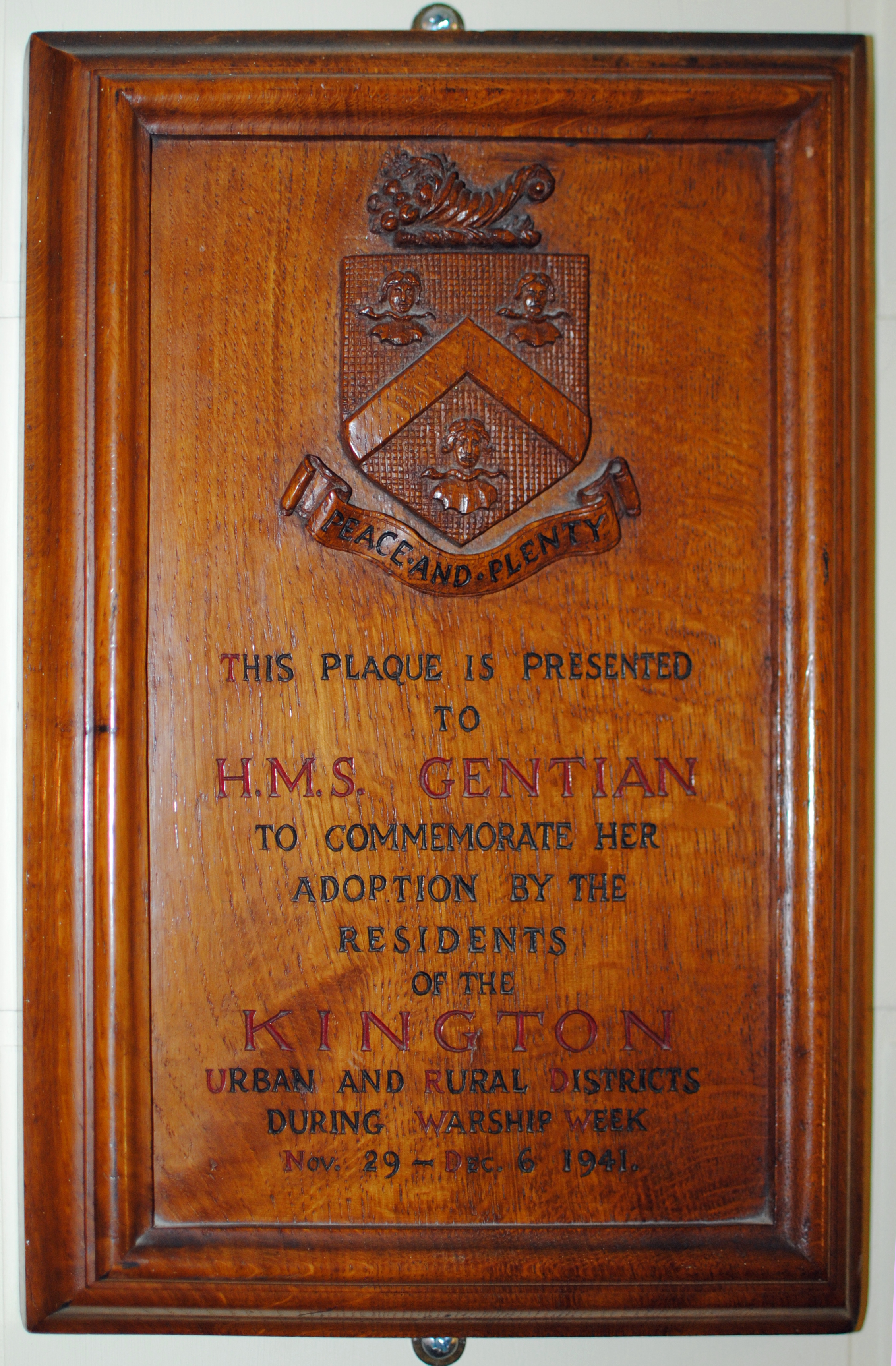 Plaque in Kington Museum, Herefordshire, England